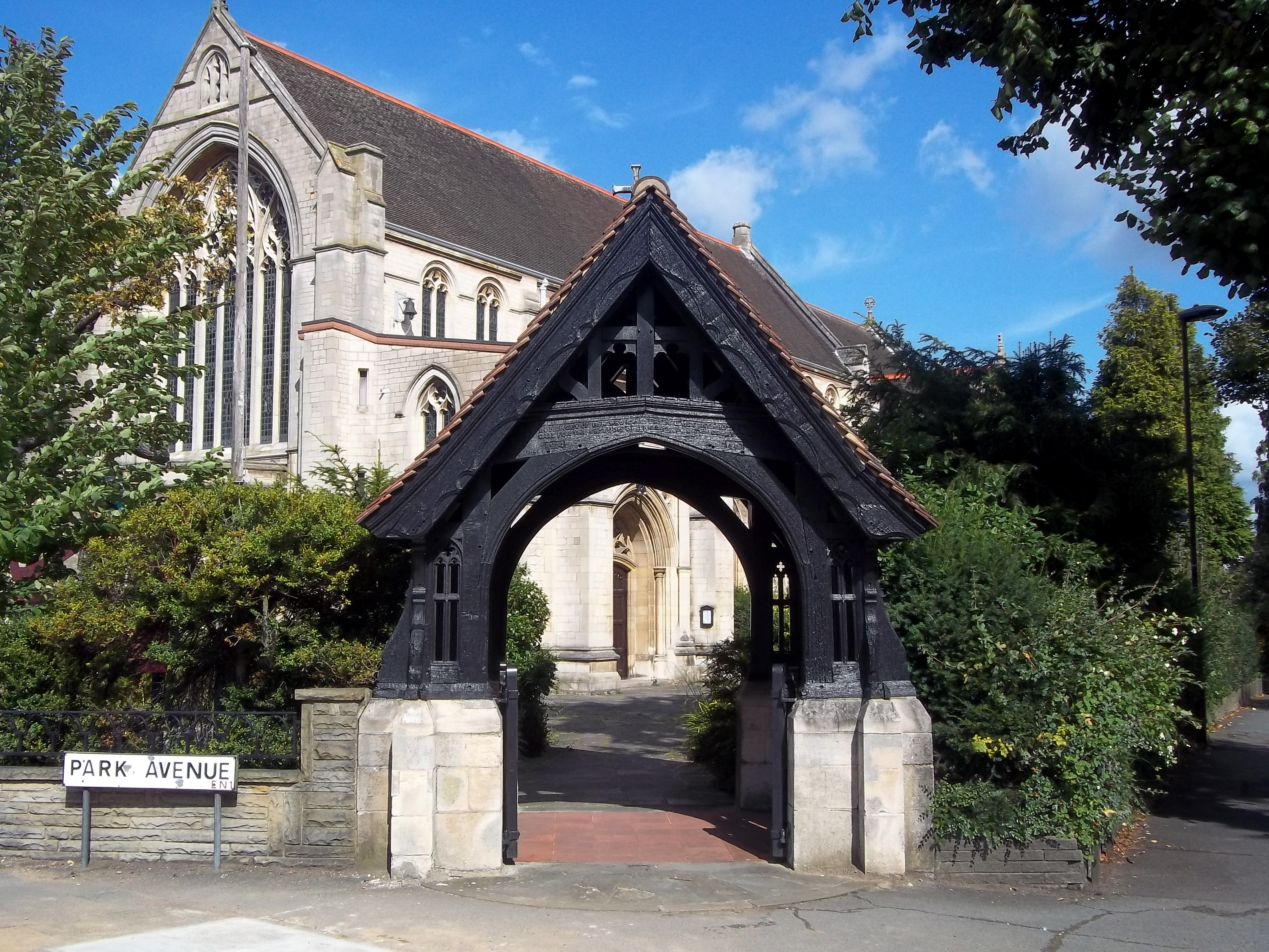 Fire-damaged lychgate of St Stephen's parish church, Village Road, Bush Hill Park, Enfield, London The St Stephen’s Church Wikipedia page